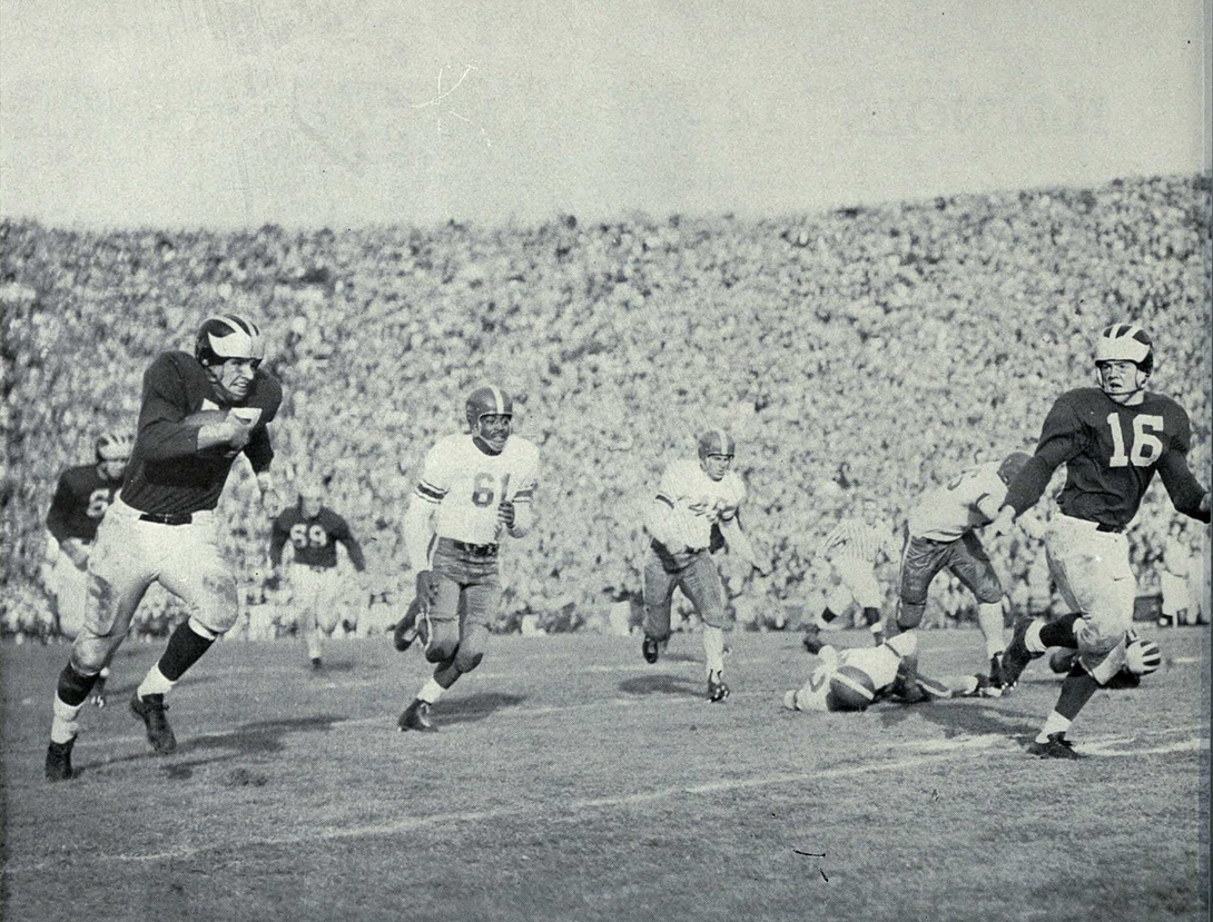 Photograph of Lou Baldacci of the 1954 Michigan Wolverines football team running with the ball on a 63-yard pass play for a touchdown against Michigan State College This work is in the public domain because it was published in the United States between 1923 and 1963 and although there may or may not have been a copyright notice, the copyright was not renewed. Unless its author has been dead for the required period, it is copyrighted in the countries or areas that do not apply the rule of the shorter term for US works, such as Canada (50 pma), Mainland China (50 pma, not Hong Kong or Macao), Germany (70 pma), Mexico (100 pma), Switzerland (70 pma), and other countries with individual treaties. See Commons:Hirtle chart for further explanation. This work is in the public domain in the United States because it was published in the United States between 1923 and 1977 without a copyright notice. See this page for further explanation. Note that it may still be copyrighted in jurisdictions that do not apply the rule of the shorter term for US works (depending on the date of the author's death), such as Canada (50 p.m.a.), Mainland China (50 p.m.a., not Hong Kong or Macao), Germany (70 p.m.a.), Mexico (100 p.m.a.), Switzerland (70 p.m.a.), and other countries with individual treaties.